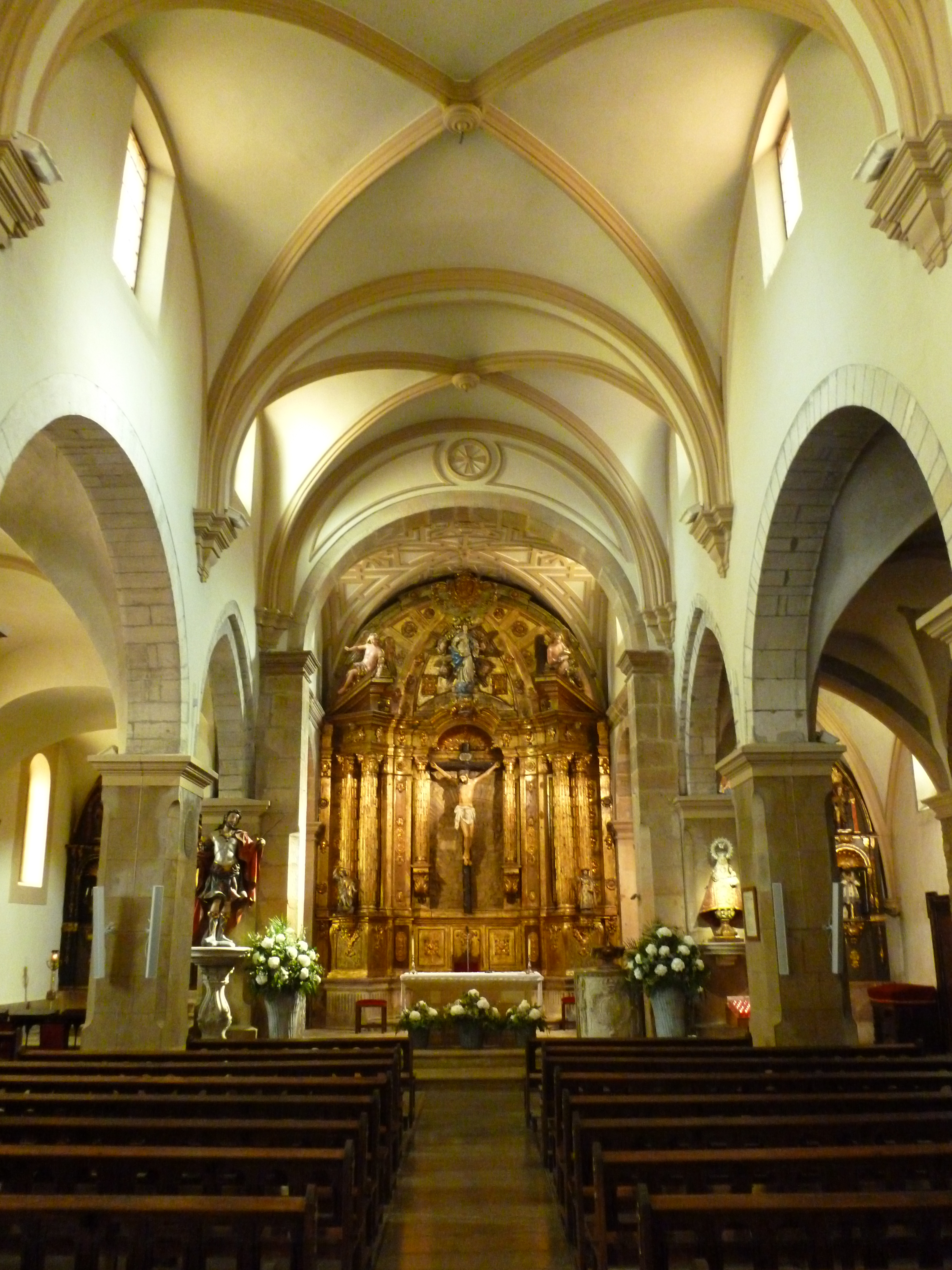 Church of San Tirso, Oviedo